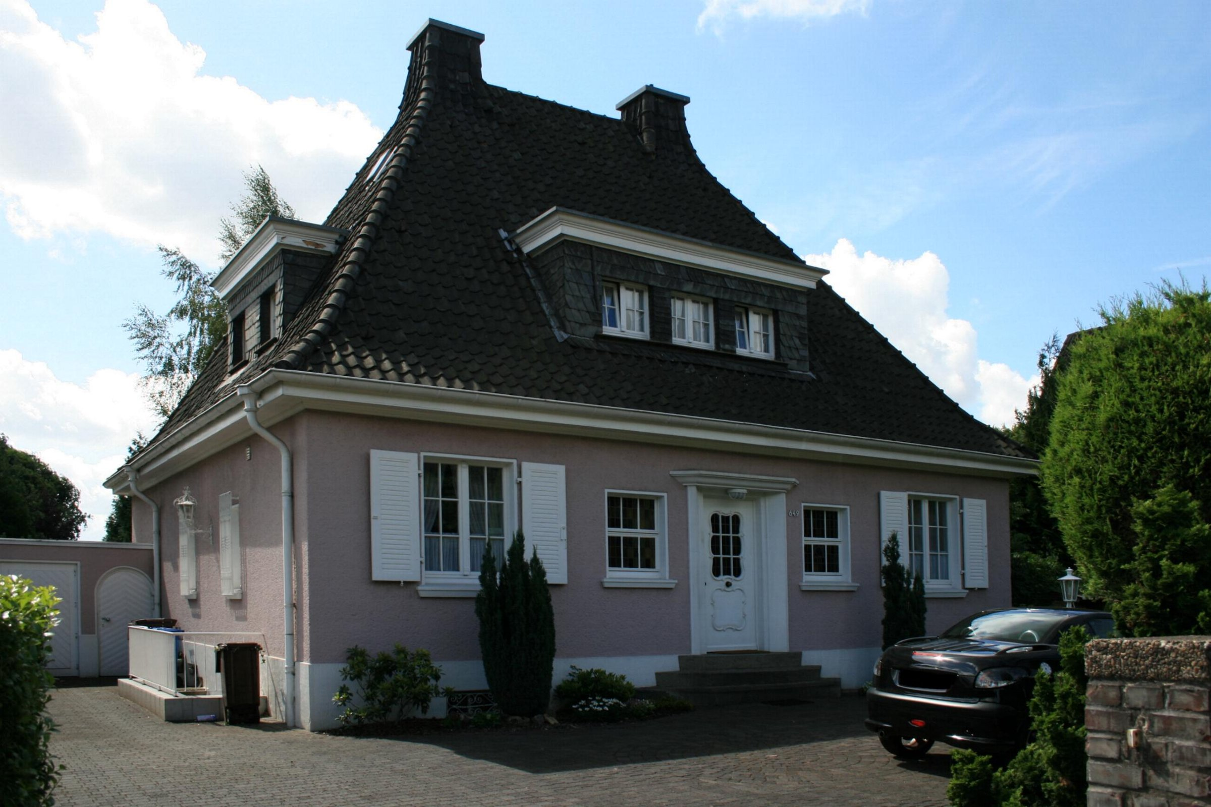 Cultural heritage monument No. A 026 in Mönchengladbach